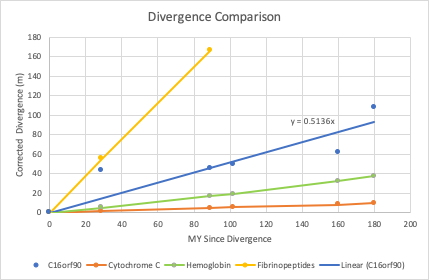 The mutation rate of C16orf90 compared to known mutation rates for fibrinopeptides, hemoglobin, and cytochrome c.